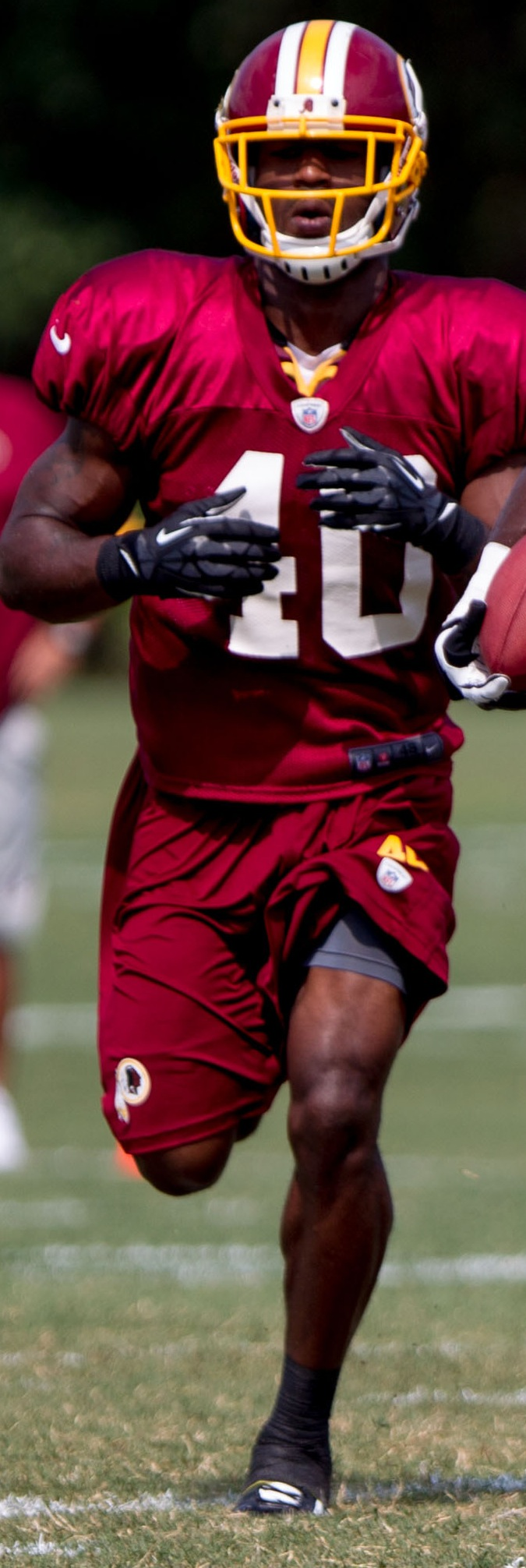 Travon Bellamy at Washington Redskins Training Camp July 30, 2012